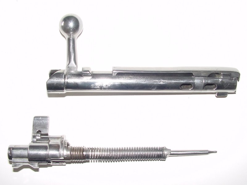 The Gewehr 98, a standard German infantry rifle, designed by a German arms manufacturer named "Mauser".